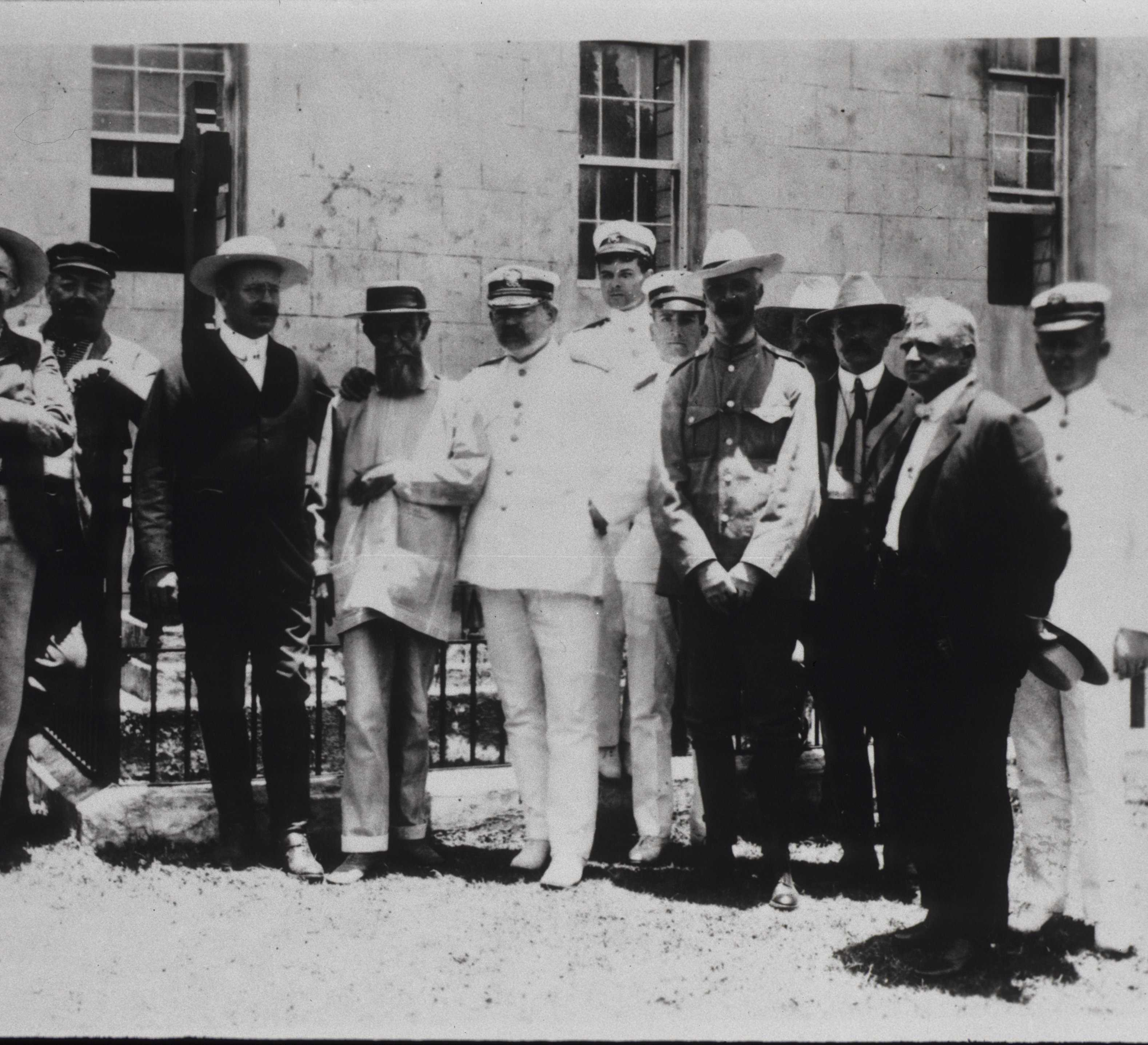 Surgeon General Walter Wyman, Brother Joseph Dutton, and others stand in front of Father Damien's grave at Kalaupapa.